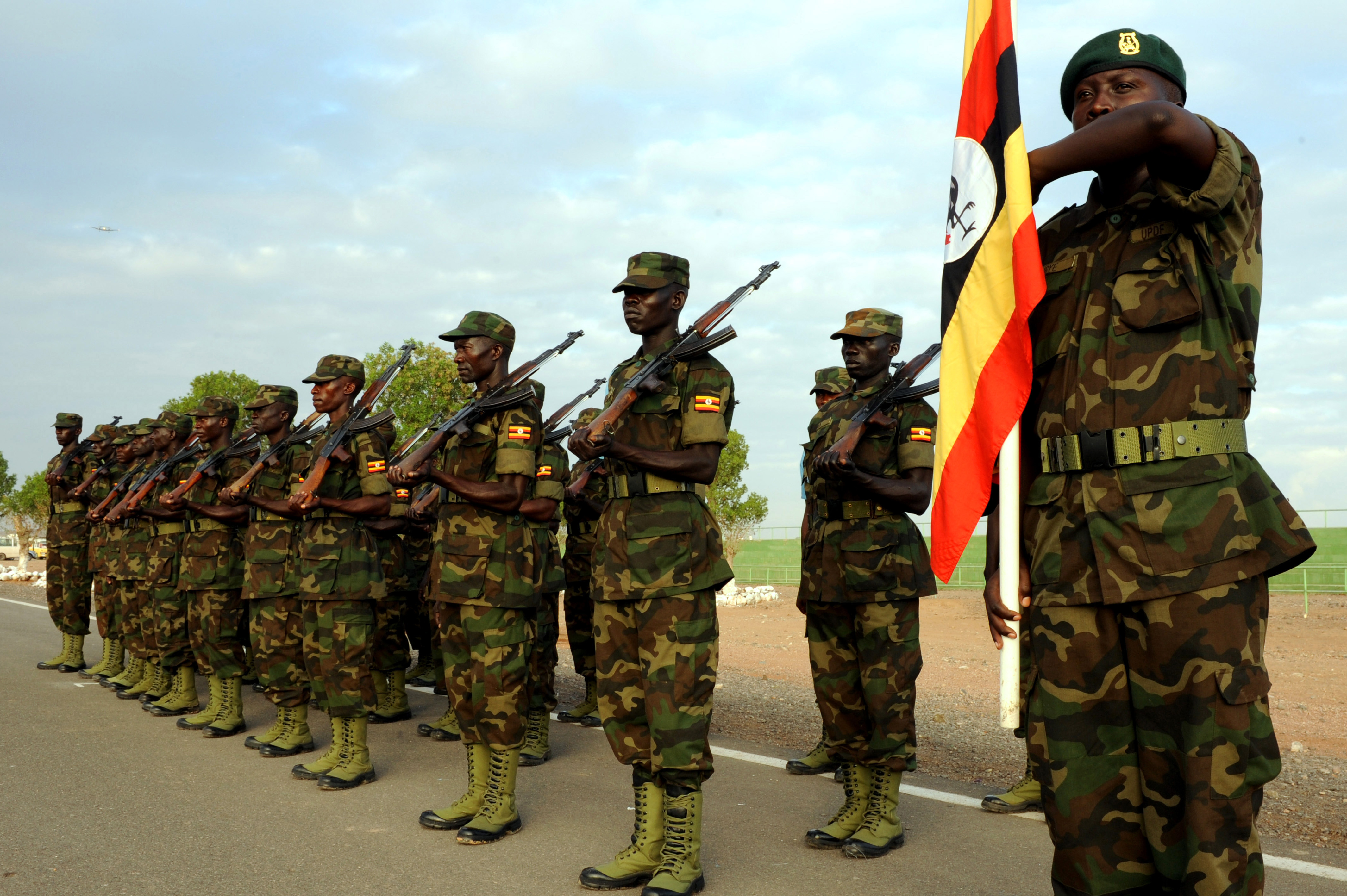 Soldiers of the Uganda People's Defence Forces stand in formation as the multi-national, Eastern African Standby Force Field Training Exercise begins Nov. 29, 2009 with an opening ceremony in Djibouti.